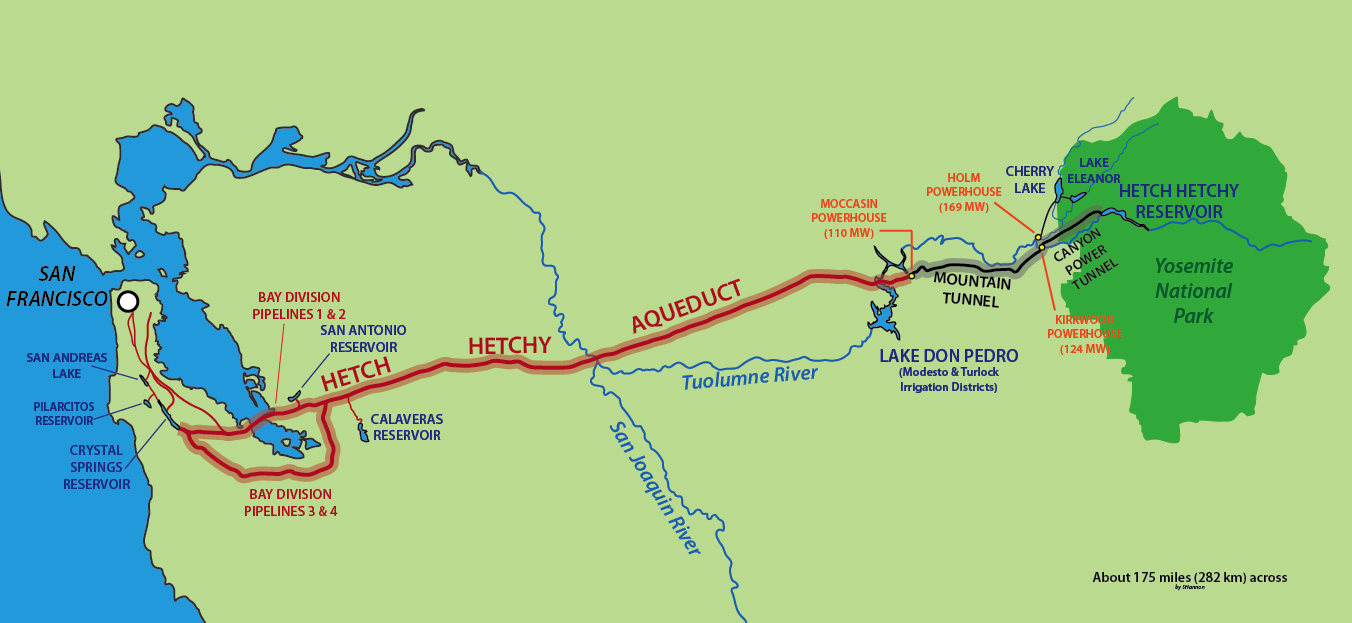 Map of San Francisco's Hetch Hetchy Project and appurtenant facilities in California, USA